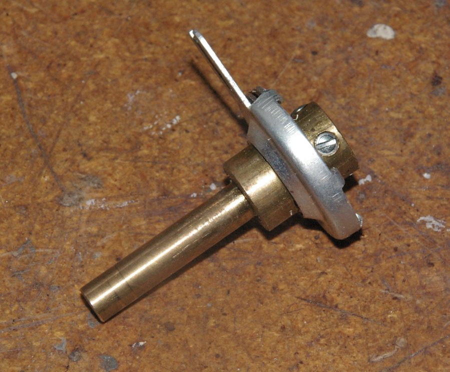 Planetary reduction drive